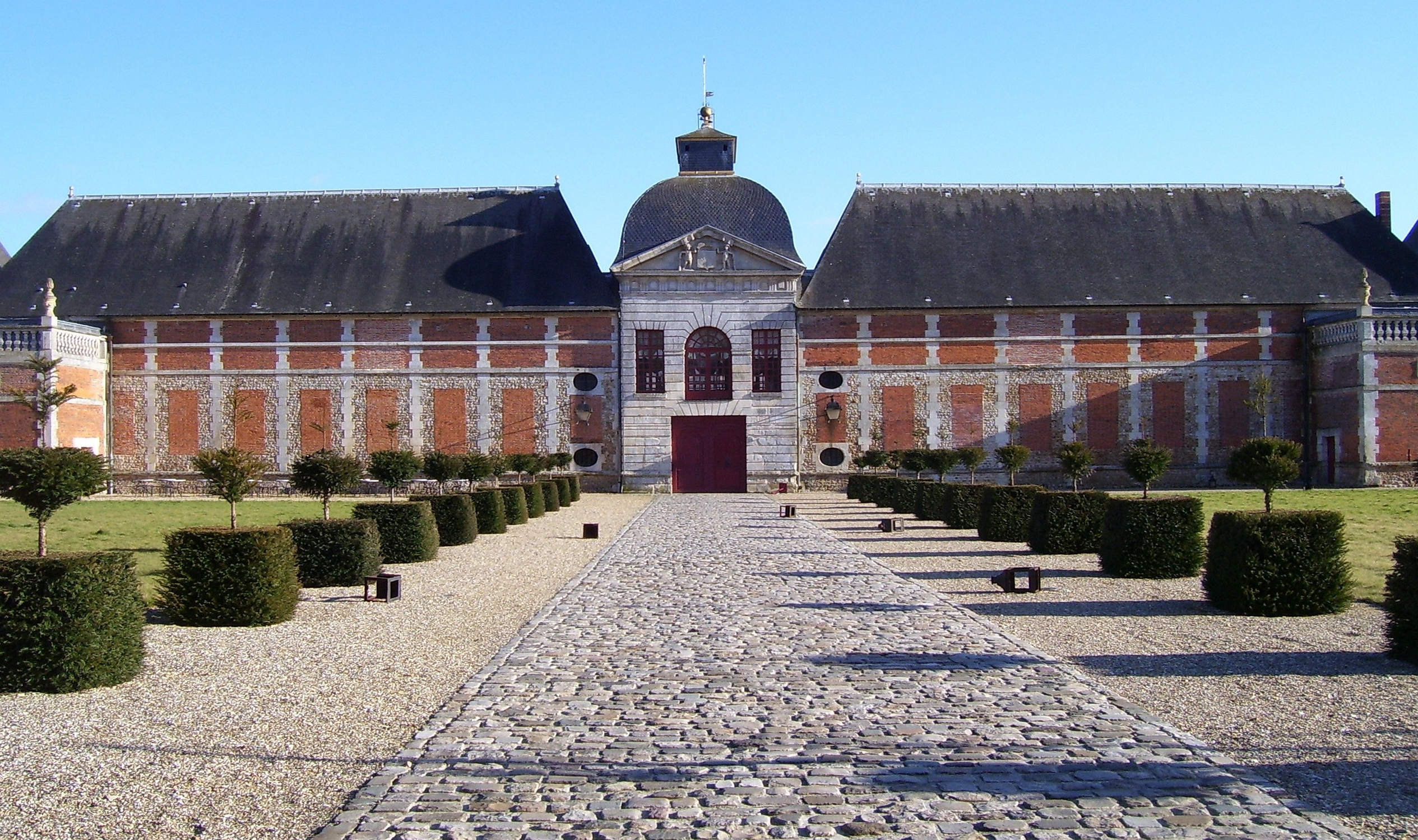 Entrance of the château du Champ-de-Bataille, in the department Eure in the region Haute-Normandie, France. It was built in the 17th century for the Marshal of Créqui.